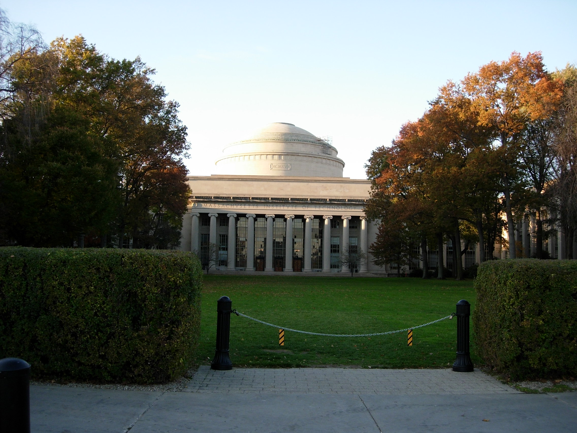 Great Dome at MIT, November 2004